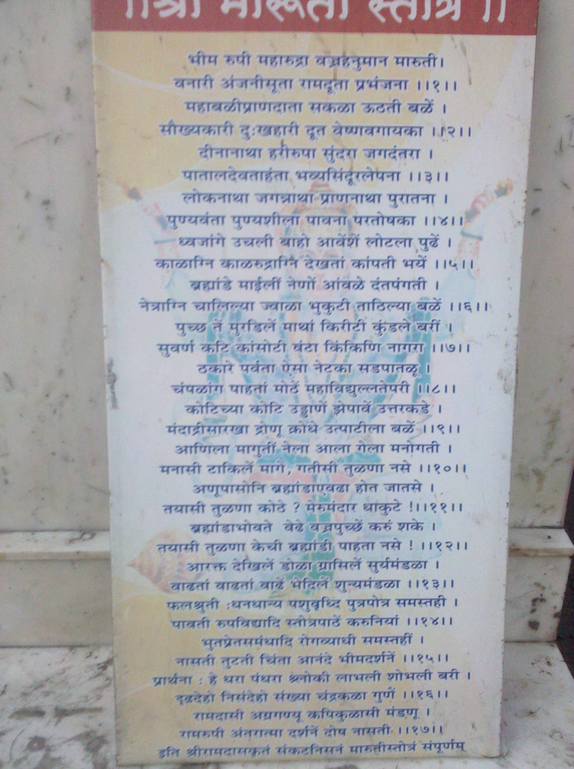 Lord Maruti (Hanuman) prayer.